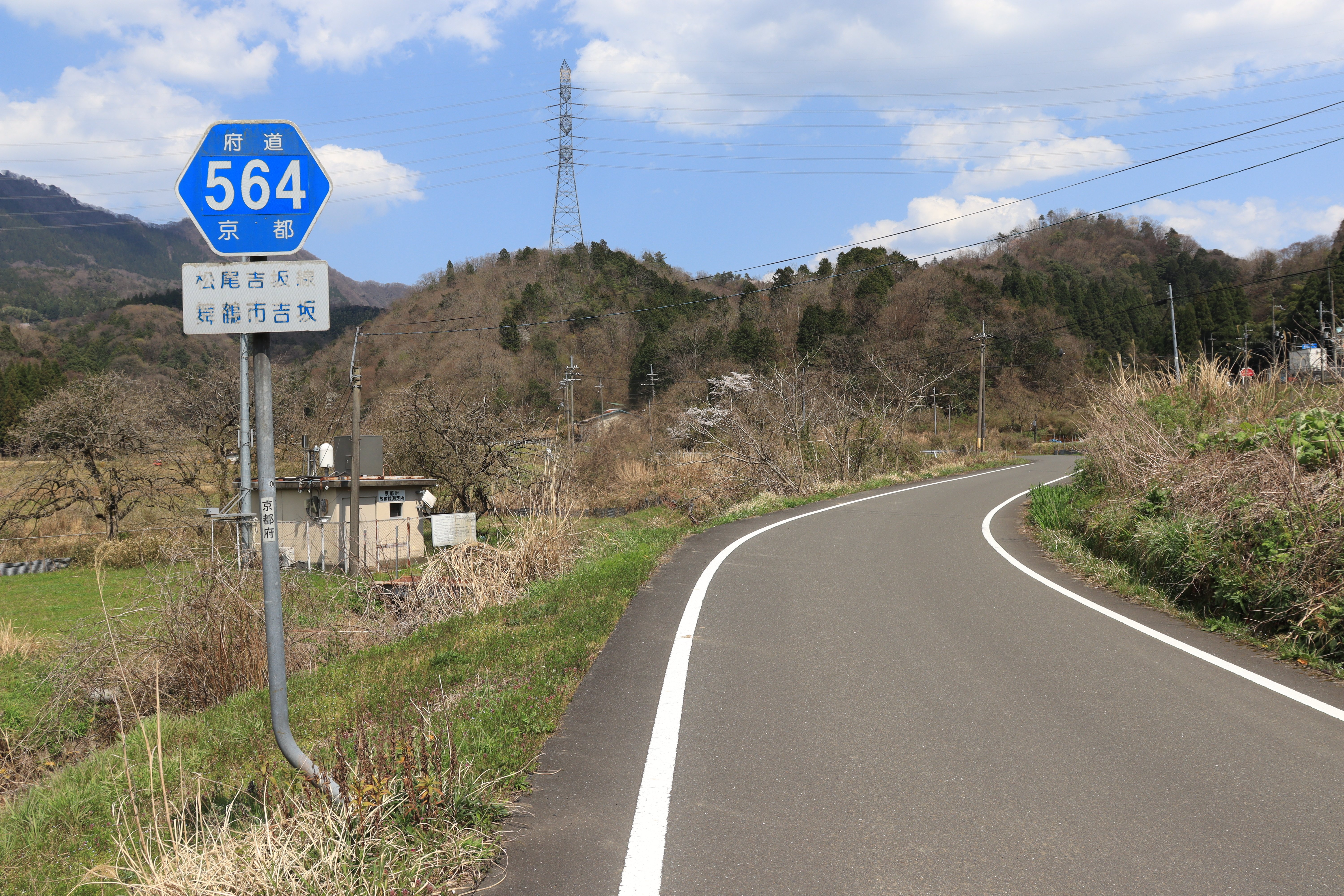 Kyoto Prefectural Road Route 564 in Kichisaka, Maizuru, Kyoto Prefecture, Japan.